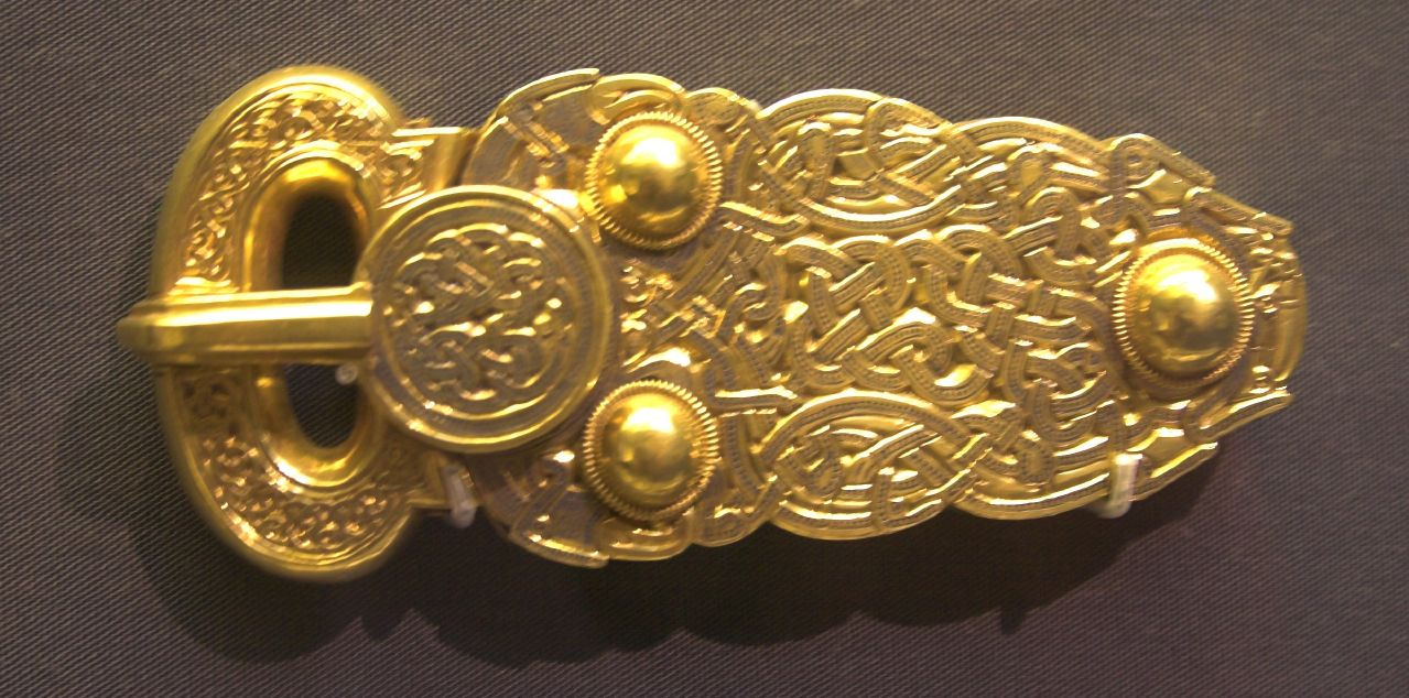 Anglo-Saxon golden belt buckle from the Sutton Hoo ship-burial 1, Suffolk (England). 7th century AD. British Museum. (Shot in very low light so out of focus.)